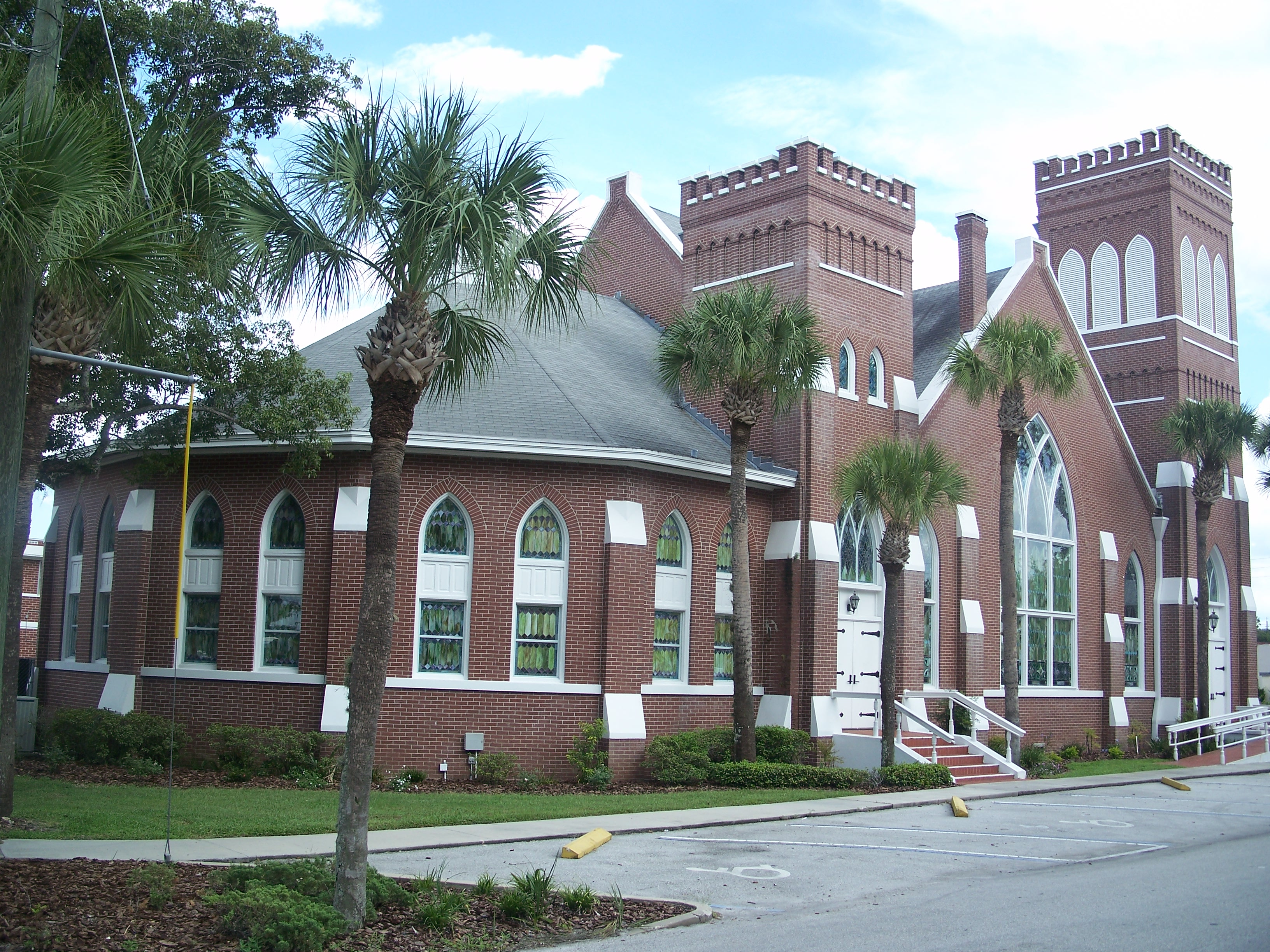 Kissimmee, Florida: First United Methodist Church